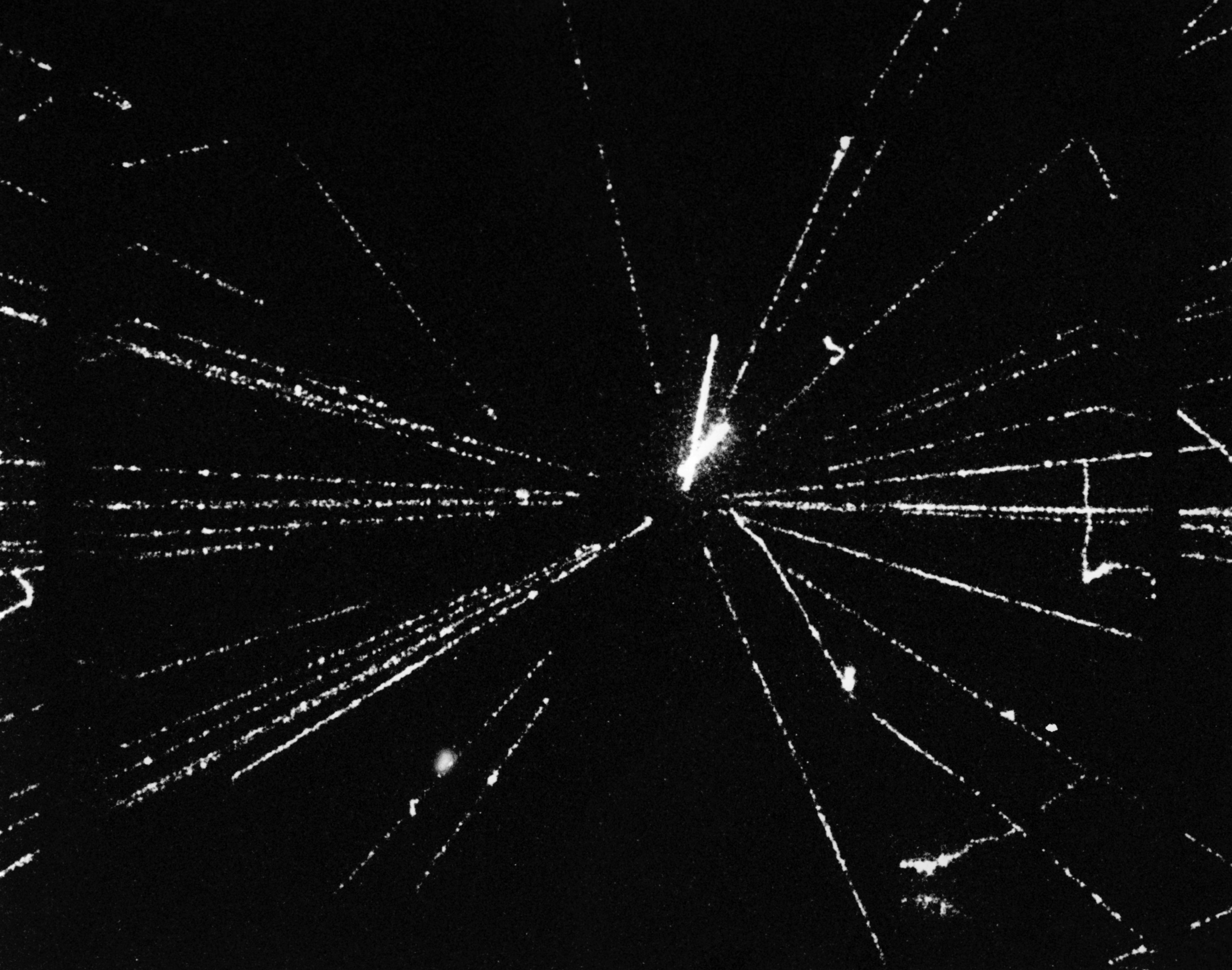 A proton-antiproton interaction at 540 GeV, showing particle tracks in a streamer chamber. The dark bands on each side are lead baffles, designed to generate cascades as particles pass through. Photo taken in 1982 at CERN’s Super Proton Synchrotron by the UA5 collaboration, of which I was a part.